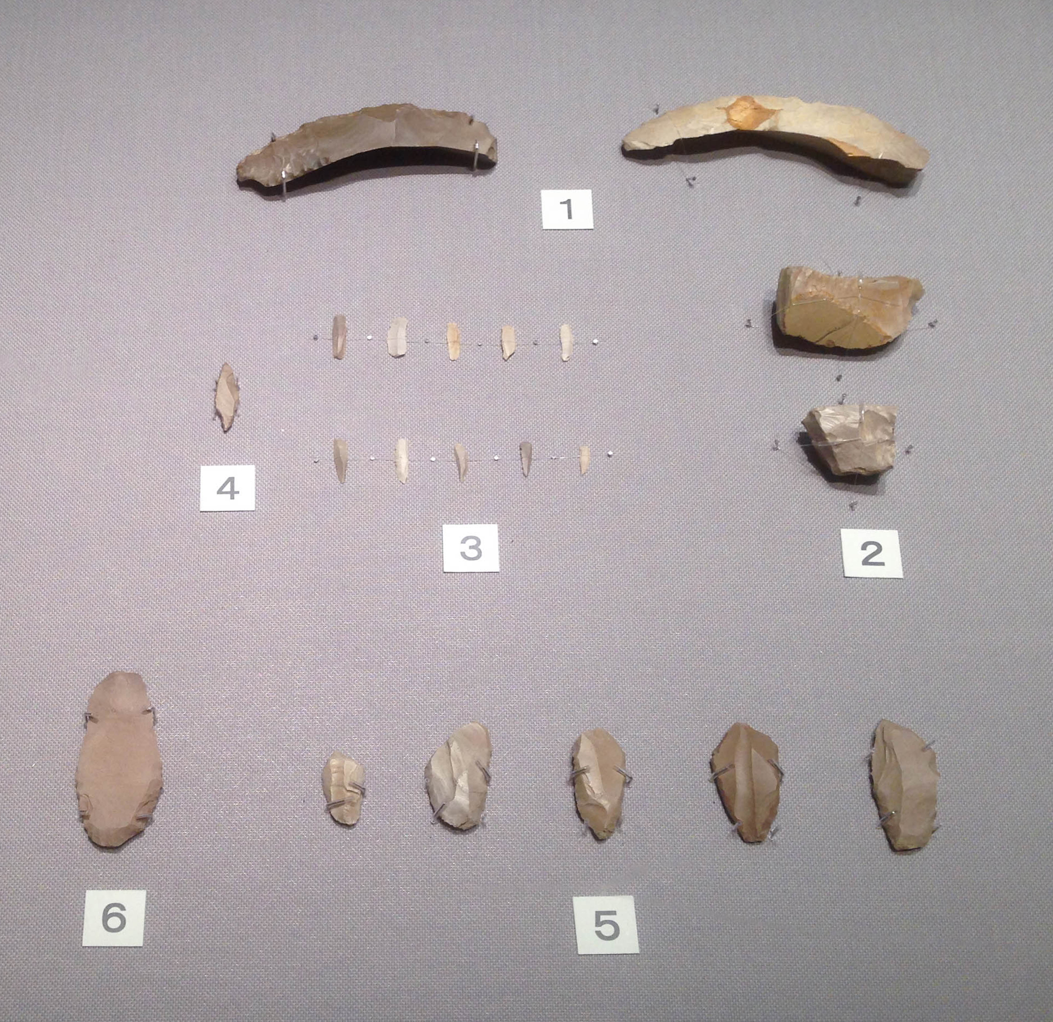 Tools from Araya archaeological site. Araya, Nishikawaguchi, Nagaoka-shi, Niigata, Paleolithic period, 16000 BC. Gift of Mr. Hoshino Ryo, Tokyo National Museum.. 1: spalls; 2: microblade cores; 3: microblades; 4: arrowheads-shaped stone tool; 5: burin; 6: scraper.